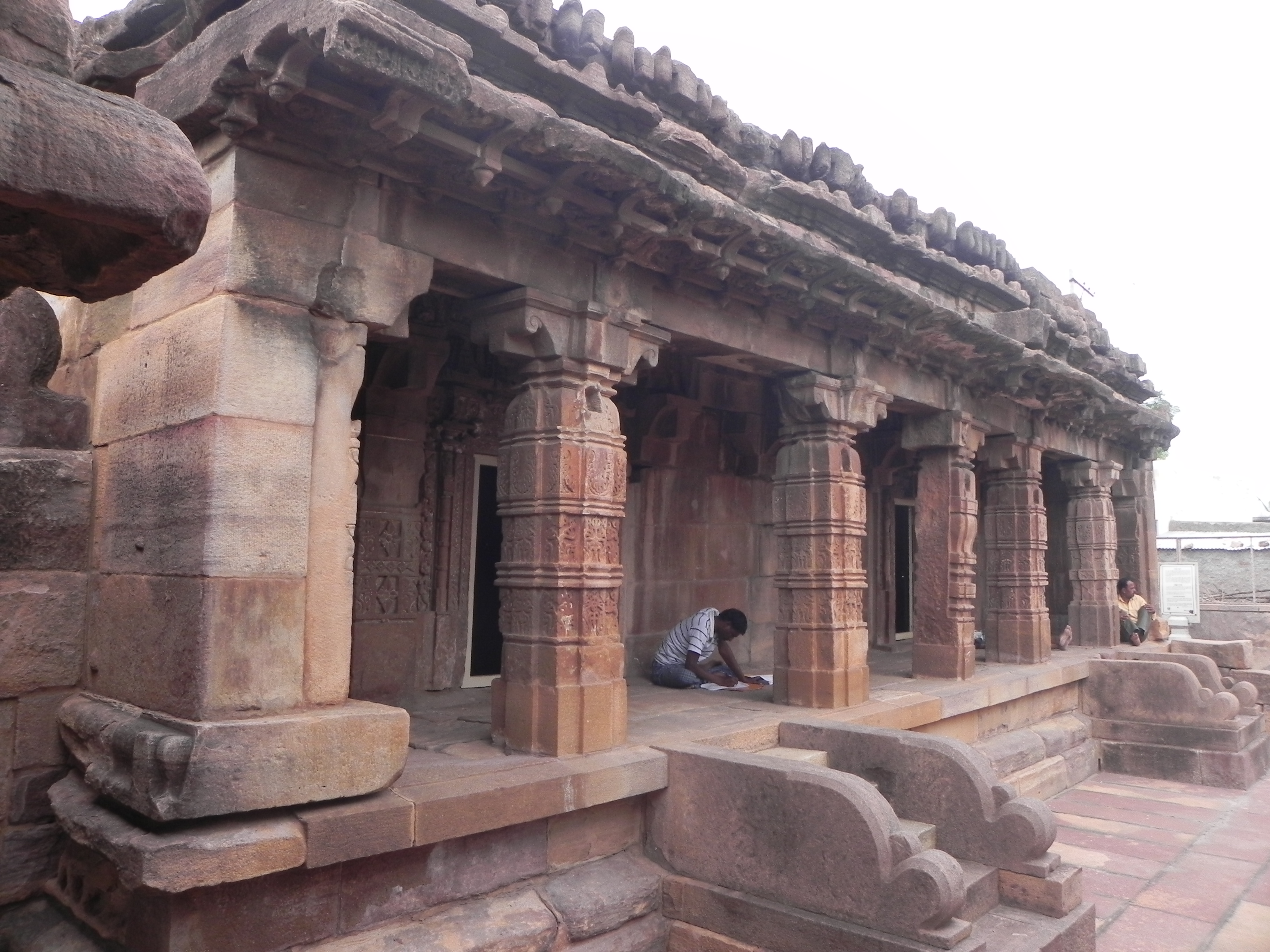 Charanthi math Jain Temple, Aihole, Karnataka, India